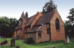 St Saviour's parish church, Valley End, Surrey: designed by GF Bodley and built in 1867